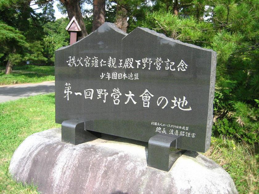 A picture of the commemorative Boy Scout plaque at Tenjinhama on Lake Inawashiro. Picture was taken in Inawashiro, Fukushima Prefecture, Japan with a Canon Power Shot SD450 Digital Elph camera and modified using a Paint Shop program on a laptop computer.